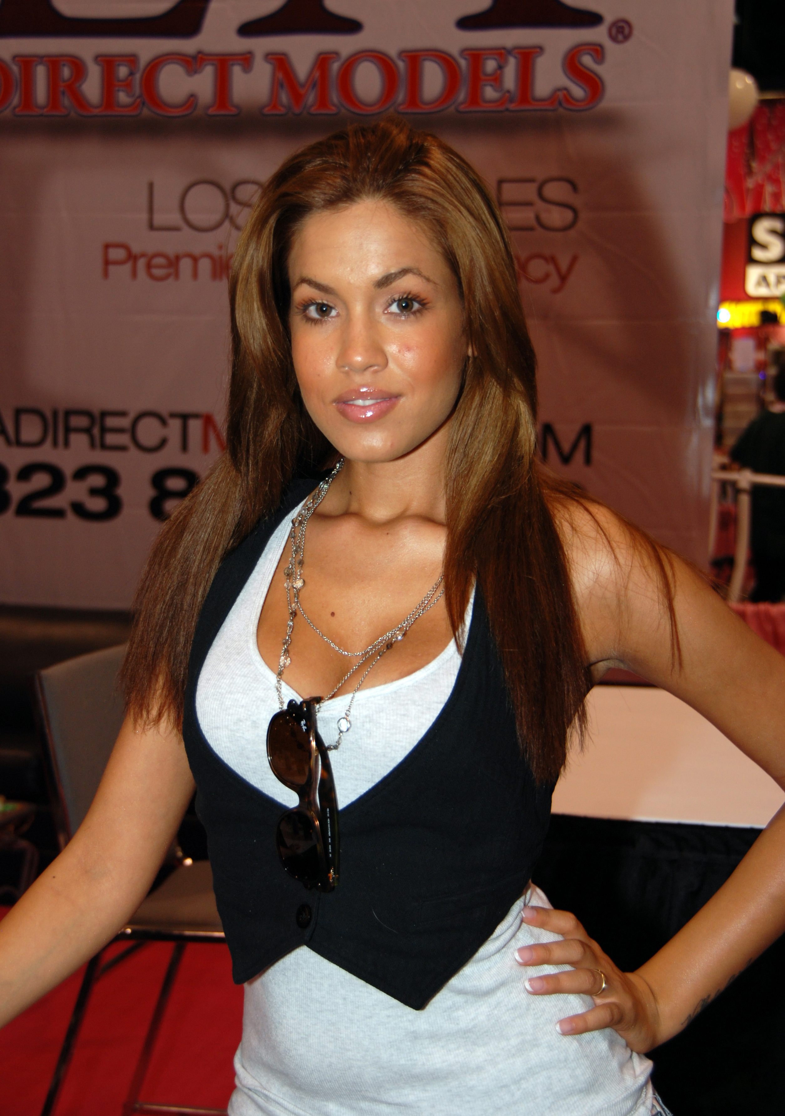 Isis Taylor